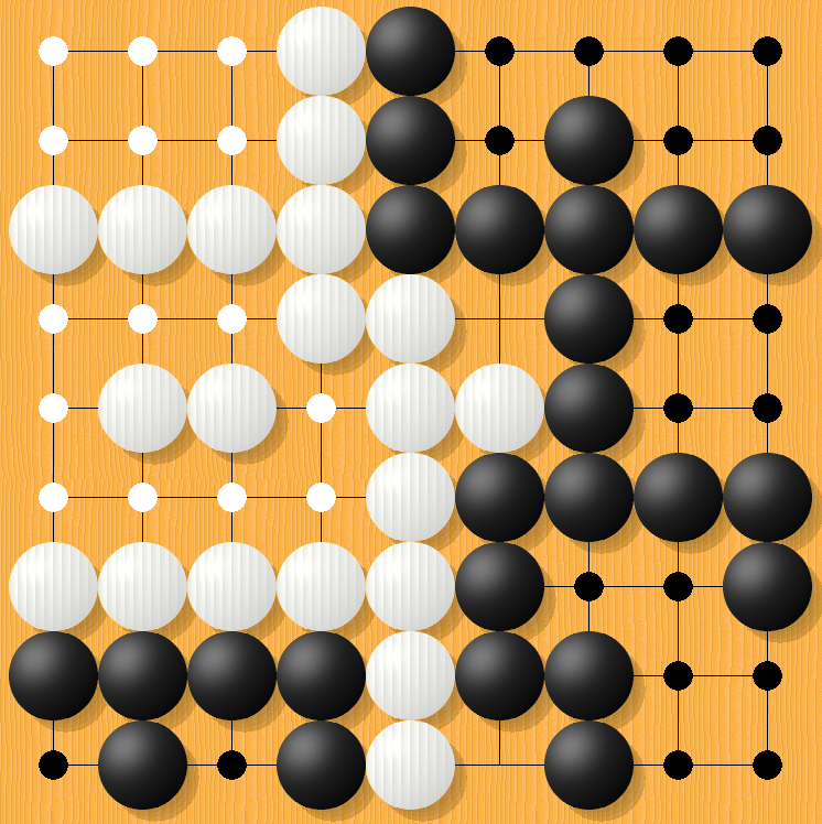 Scoring on a Go game according to Japanese rules